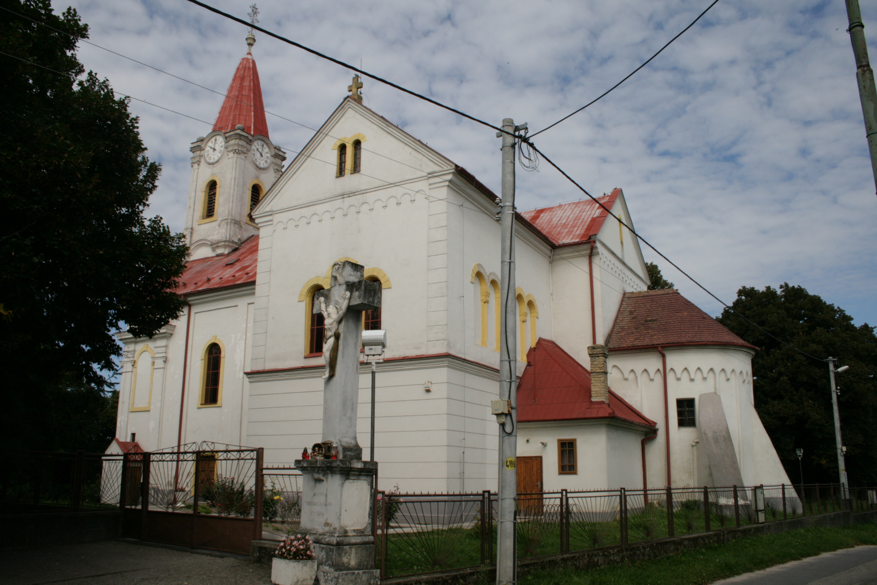 Church at Jelka (Galanta district, Slovak Republic)